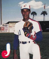 Professional baseball player Esteban Beltre